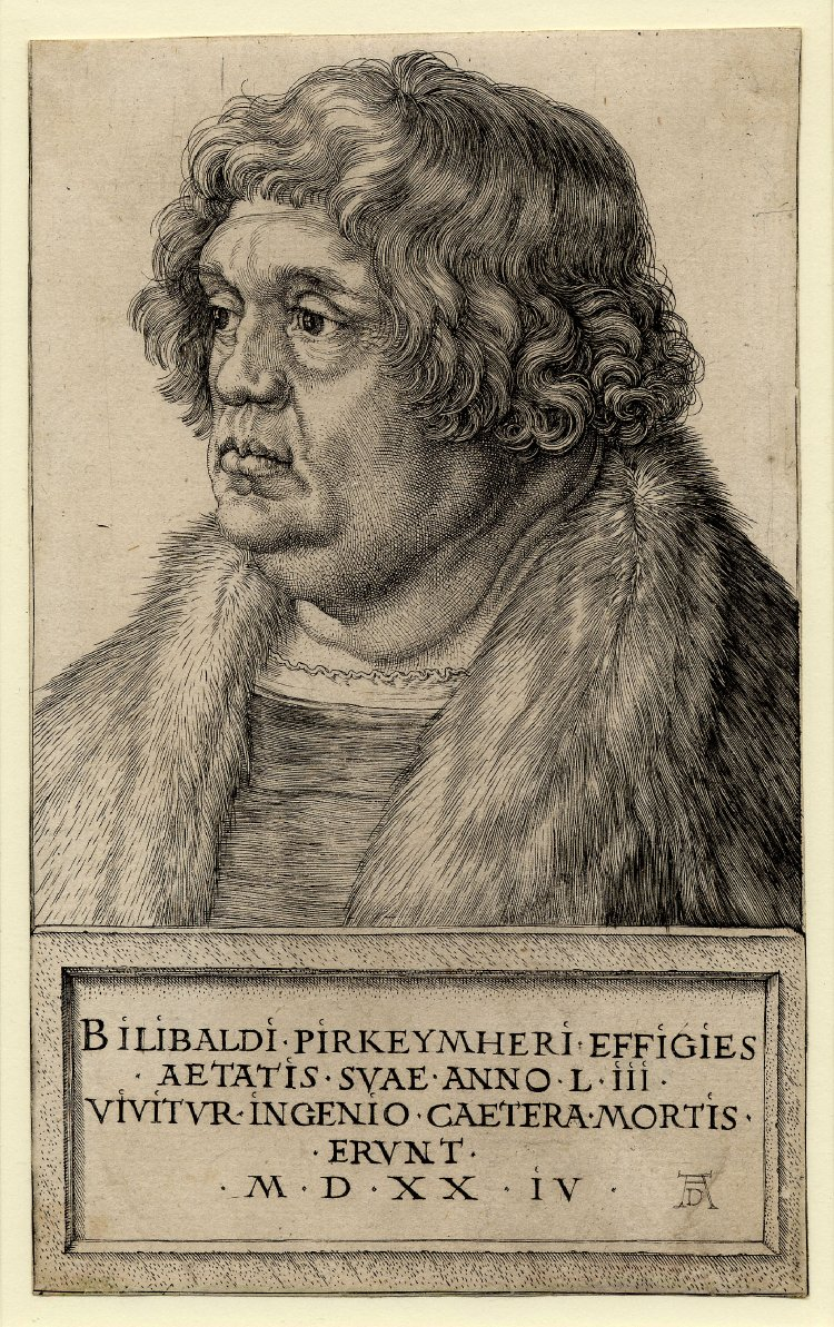 Willibald Pirckheimer